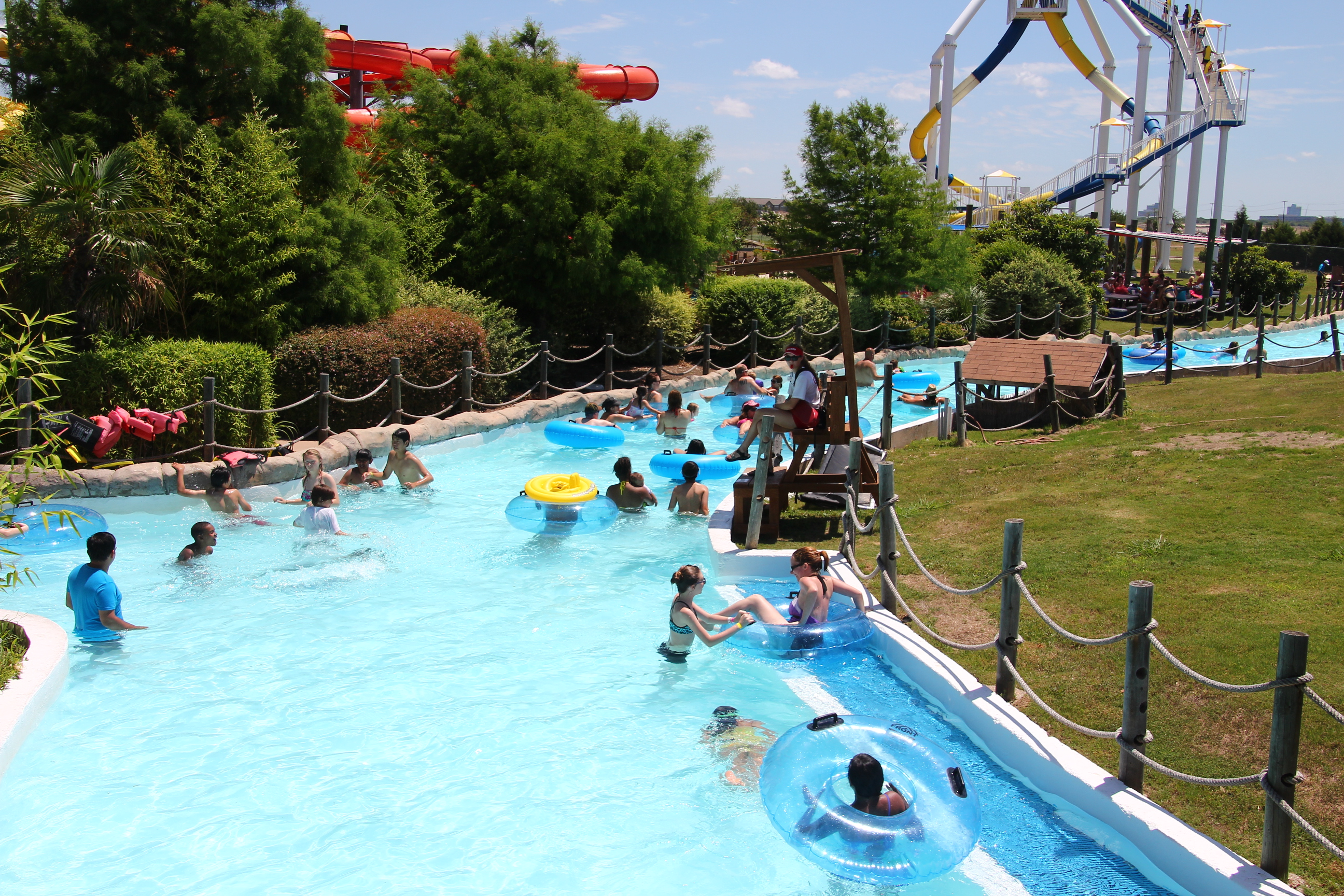 The Kona Kooler Adventure River lazy river at Hawaiian Falls waterpark in The Colony, Texas.